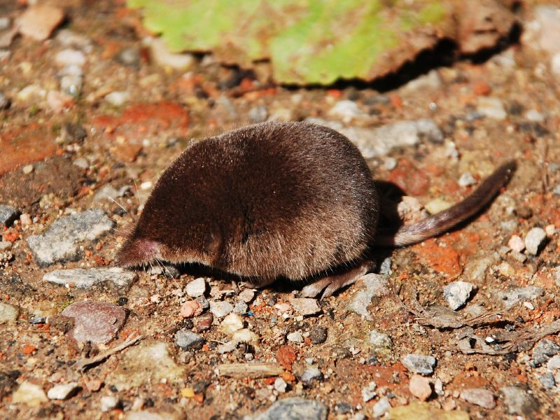 Pigmy shrew (Sorex minutus)